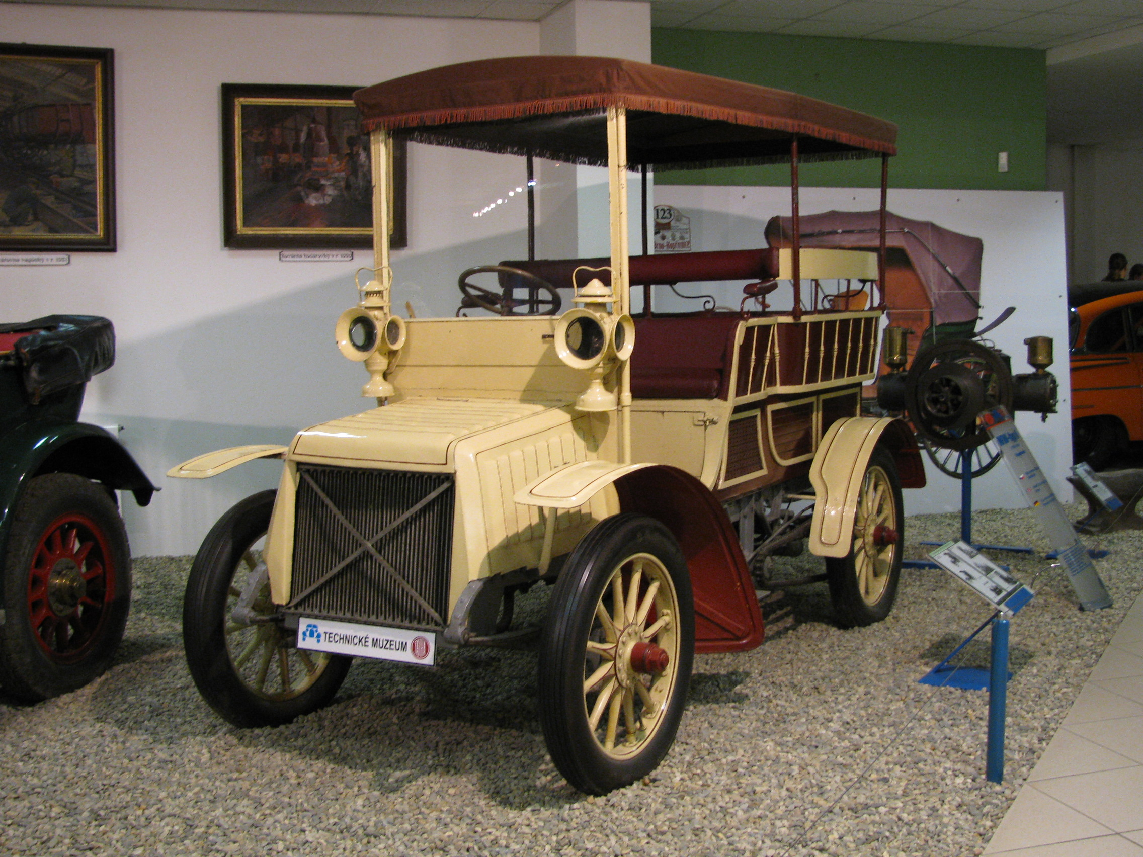 NW Typ B in Tatra technical museum in Kopřivnice, Czech Republic.